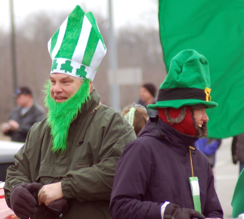 Saint Patrick's Day Parade, Dublin Ohio.